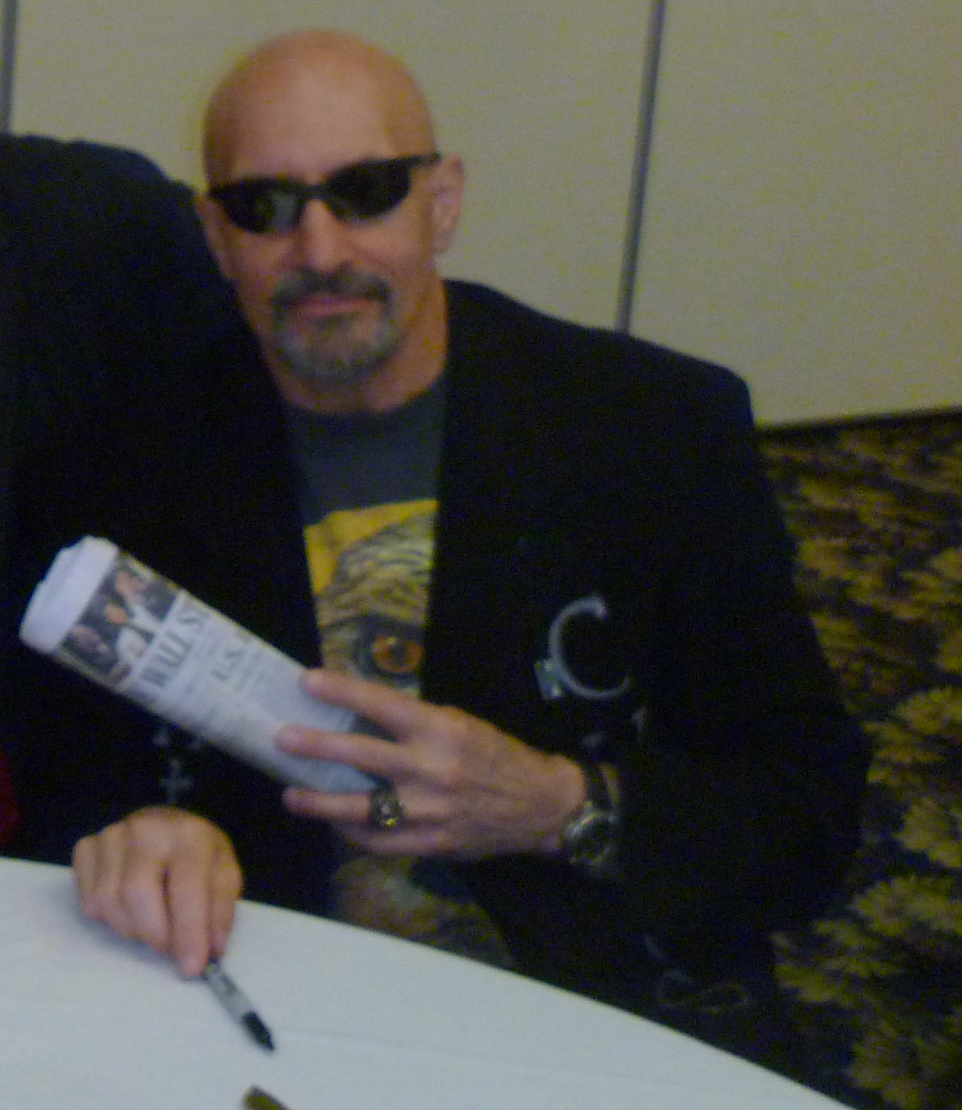 Picture of wrestling manager "Precious" Paul Ellering in 2011